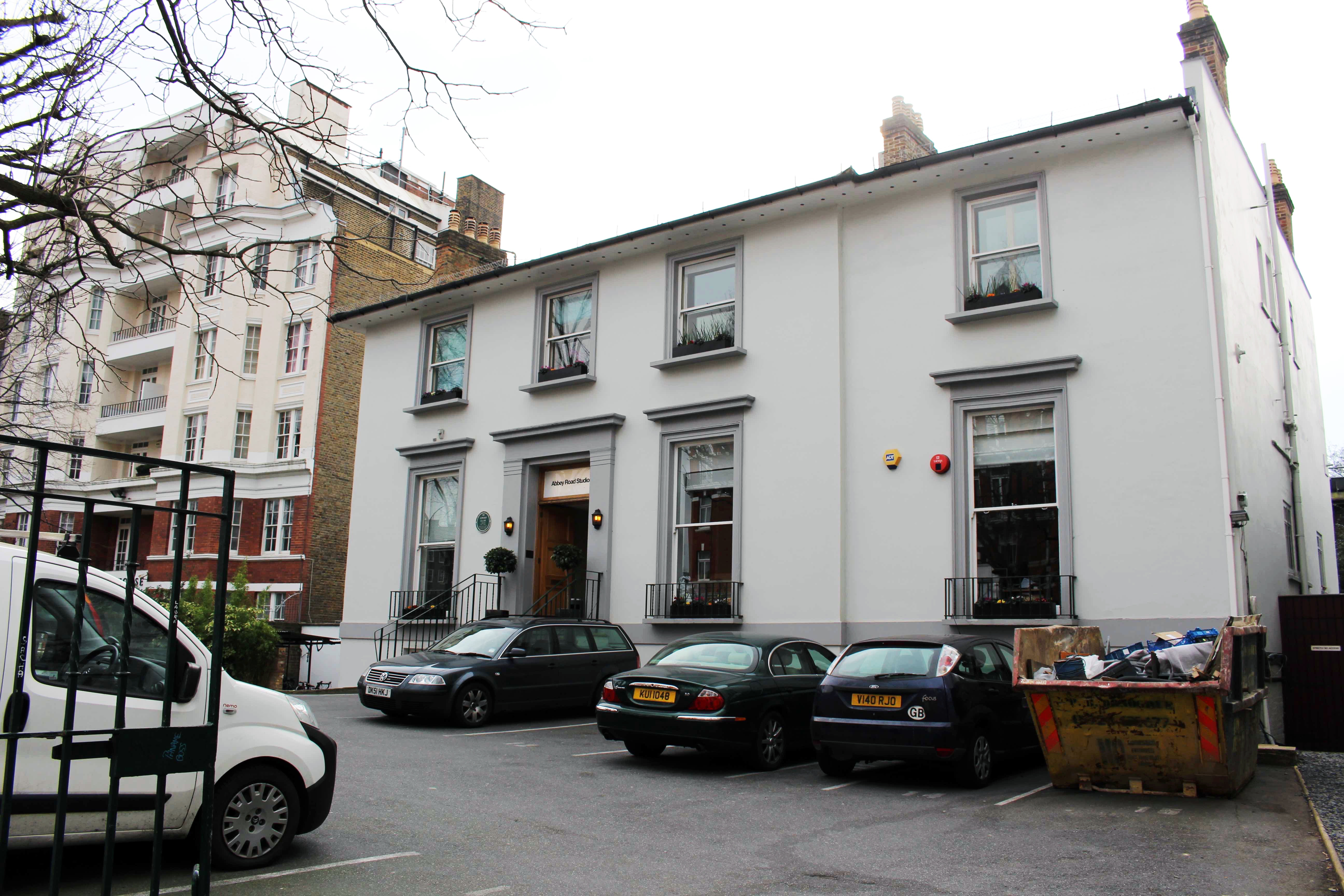 Picture of the Abbey Road studios 2015